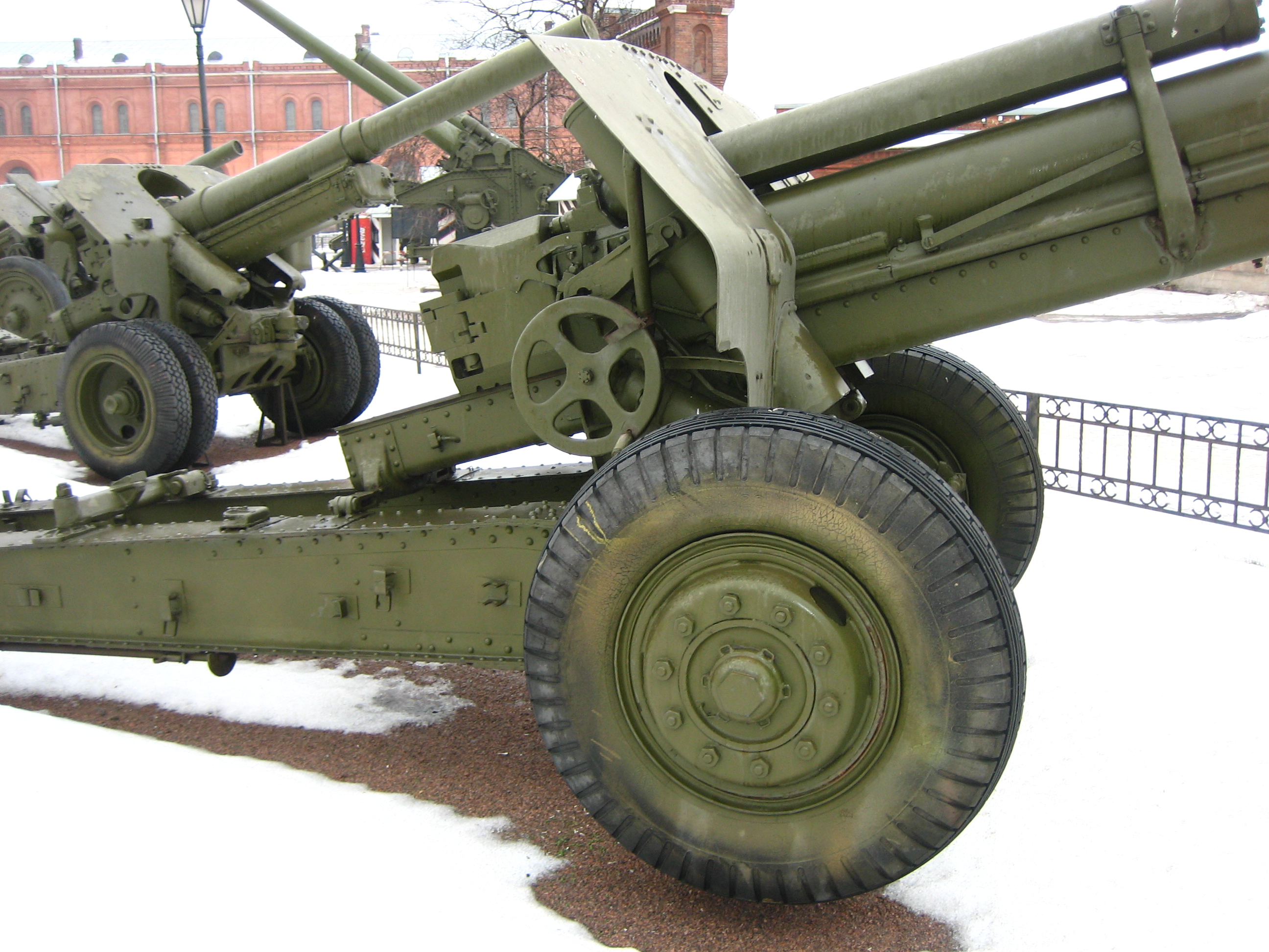 Soviet 107 mm M-60 Mark 1940 gun, displayed in Saint Petersburg Artillery Museum. Photo taken on 3 Marсh, 2007. Source: Photo by me, User:Saiga20K.